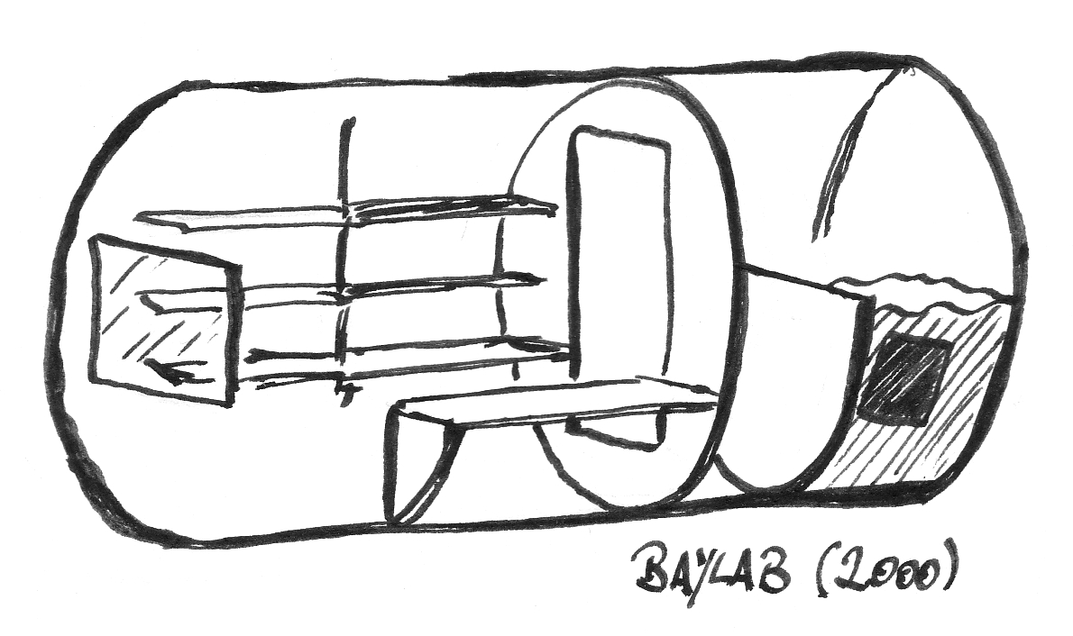 Baylab was an underwater habitat of Morgan Wells. It was deployed in October 2000 in Milford Haven, between Gwynn's Island and Mathews on Chesapeake Bay at a depth of 15 feet (4.57 m). The drawing shows the interior configuration.